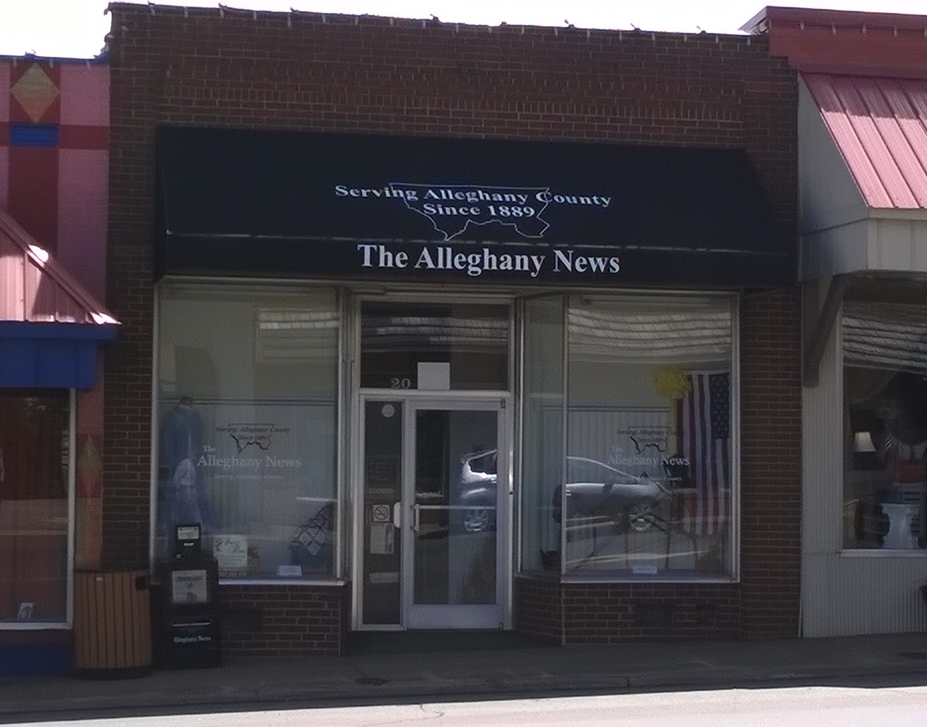 Office building for The Alleghany News on Main Street in Sparta, North Carolina